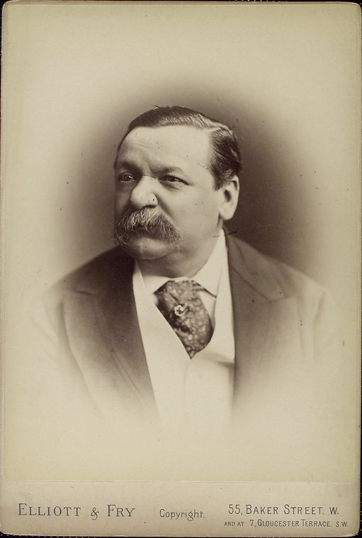 Portrait photo of British journalist George Augustus Sala